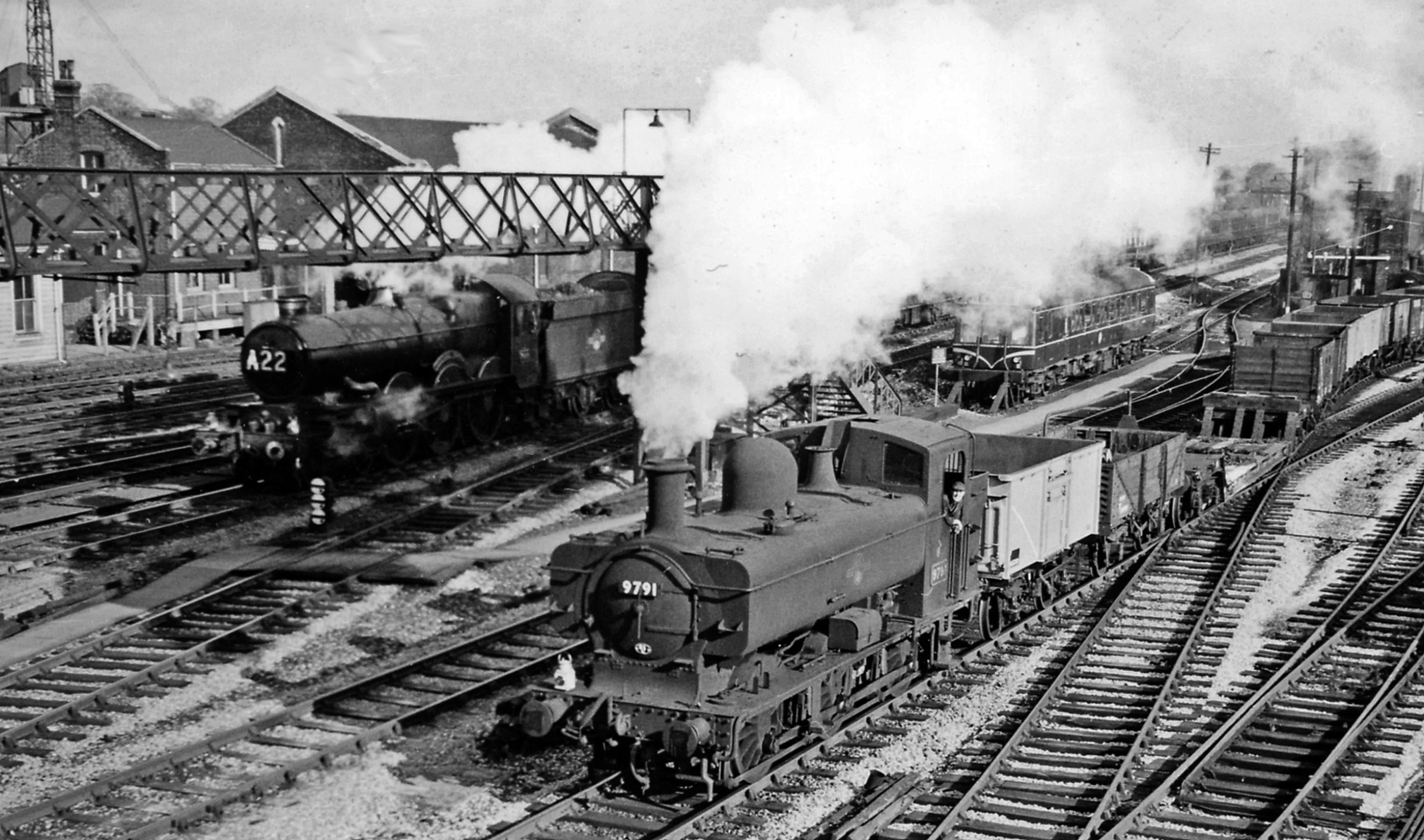 Goods train coming off the Brentford Dock branch at Southall. View eastward, towards Brentford (to the right), Paddington (top right); ex-GW Paddington - Reading etc. main line, junction of branch from Brentford. (For more detail, see TQ1279 : Down express approaching Southall). Simultaneously, on the main line the 13.15 Paddington - Hereford express is passing, with 4-6-0 7006 'Lydford Castle'.